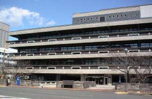 National Diet Library